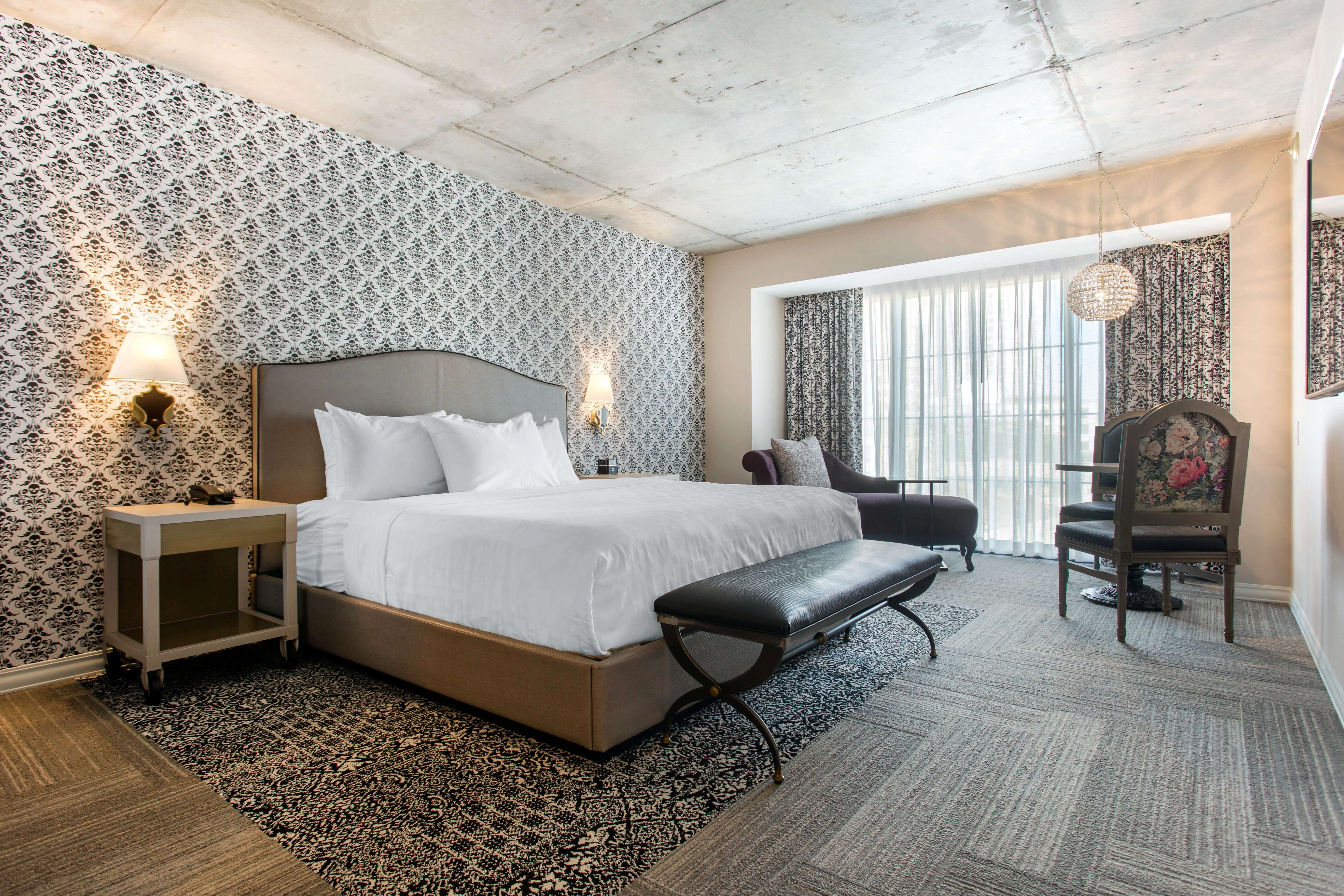 Cambria Hotel New Orleans Warehouse District guestroom, November 2017 Photo credit: Choice Hotels International, Inc.